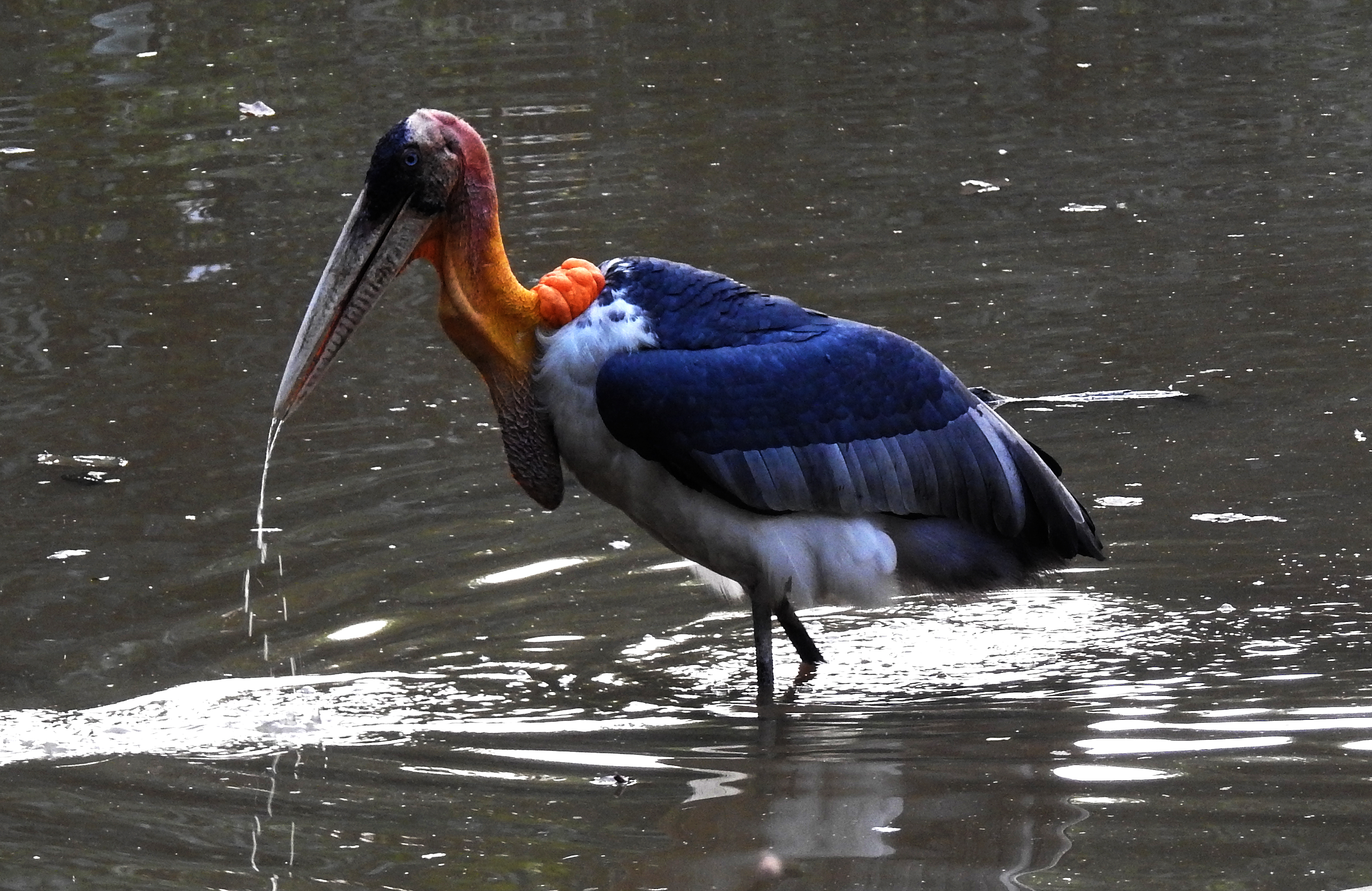 Greater Adjutant Leptoptilos dubius, Kaziranga National Park, Assam, India